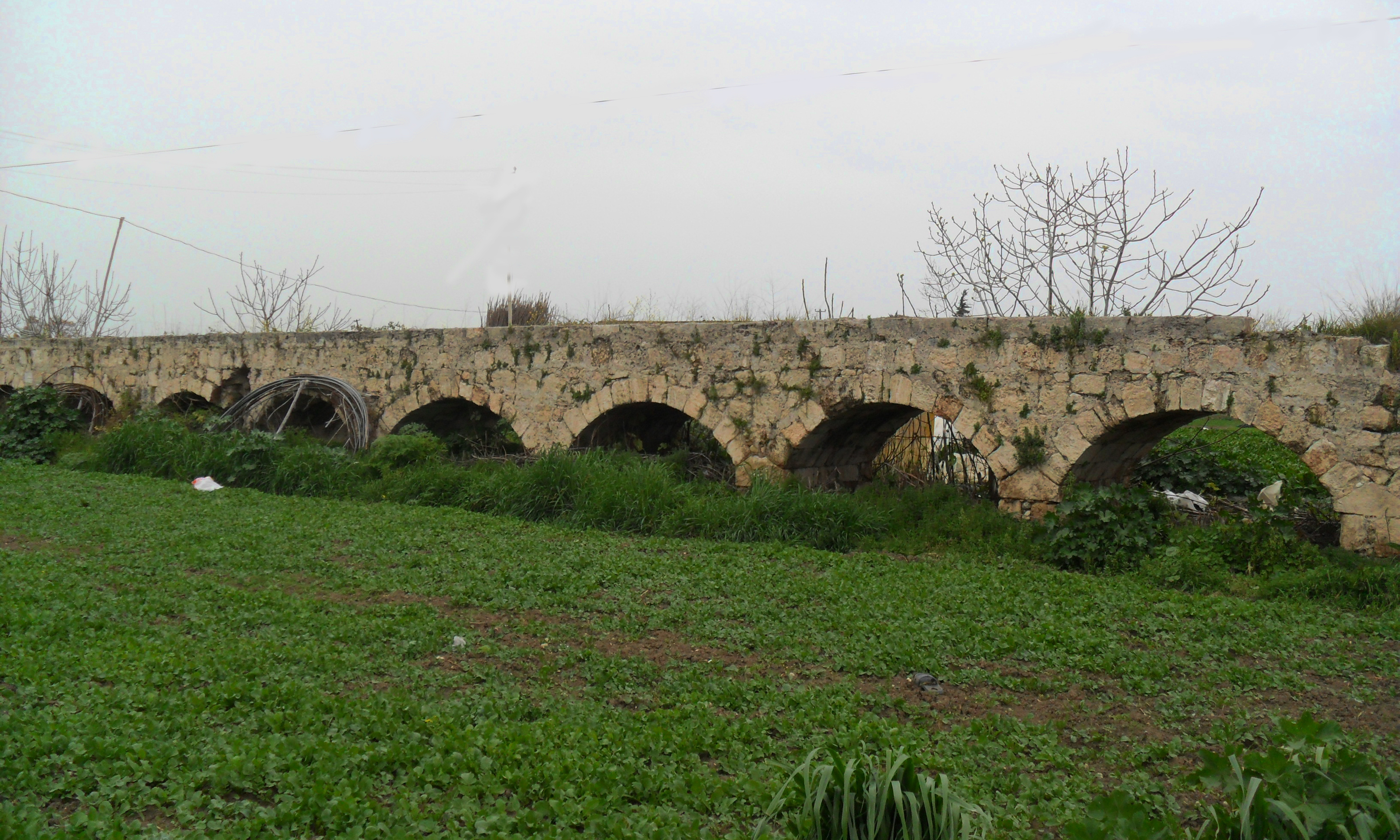 Karadıvar aqueduct in Mersin, Turkey